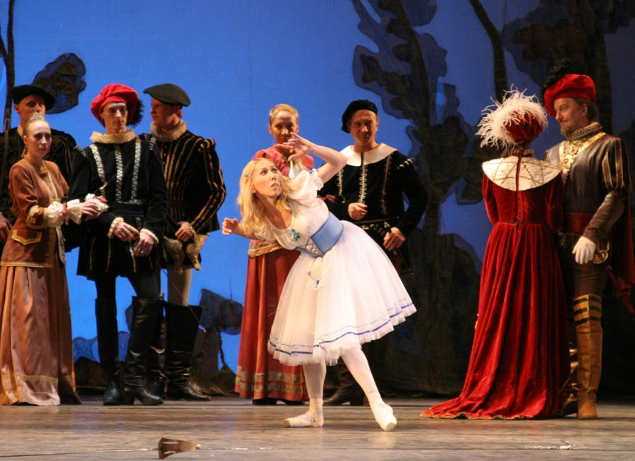 Ballerina, People's Artist of Russia Oxana Kuzmenko in the ballet Giselle (party Zhizeli)